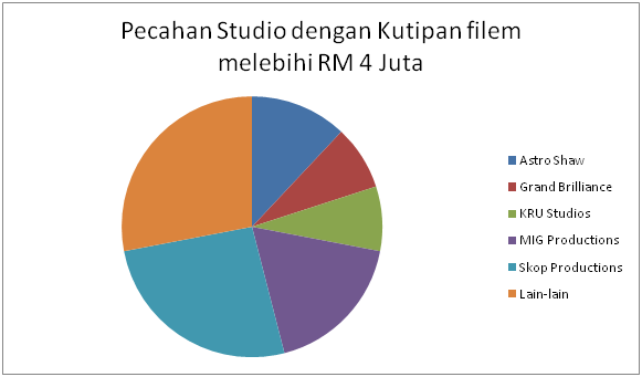 Breakdown of Studios' with films grossing more than RM 4 Million.